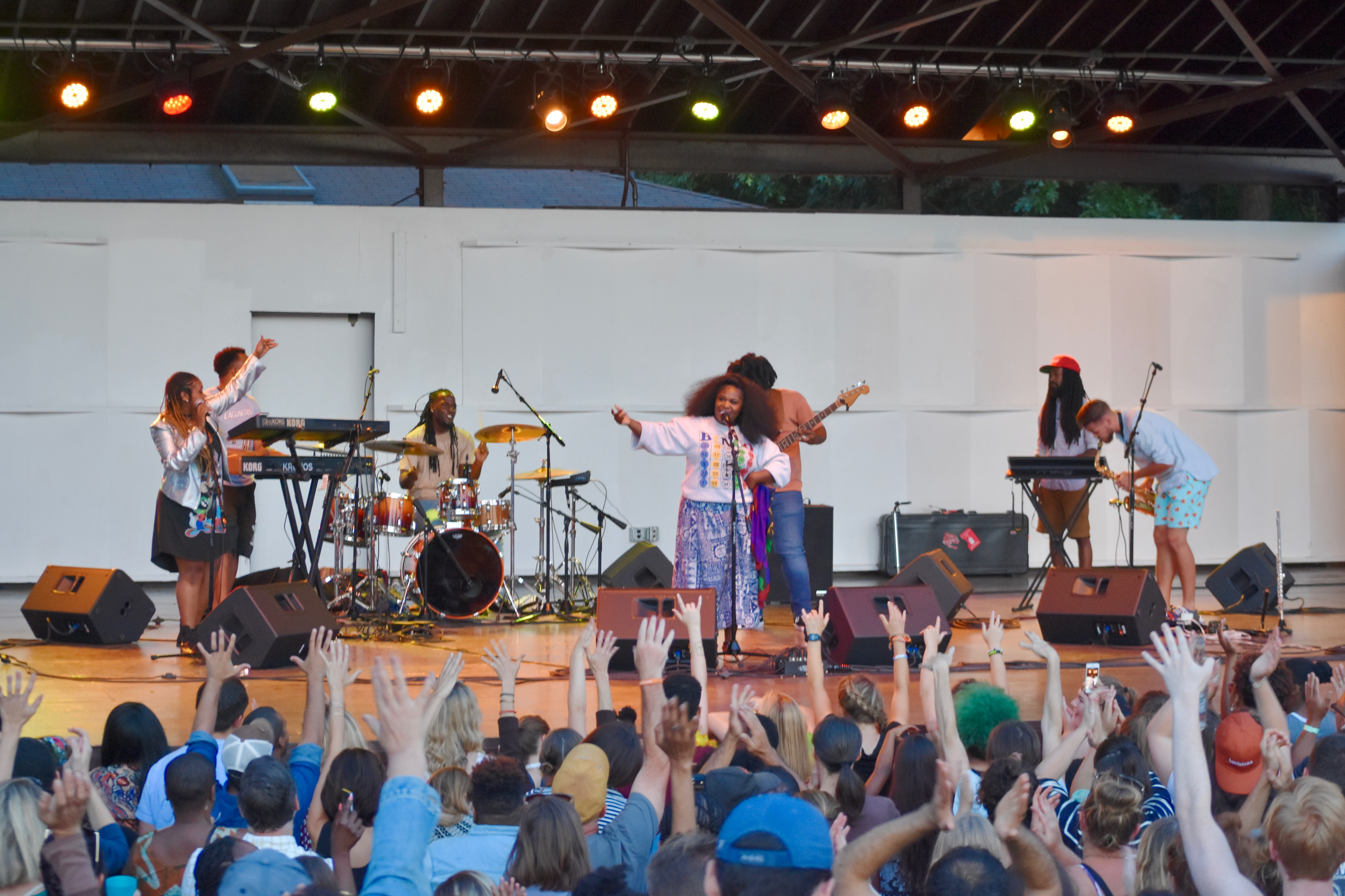 Tank and the Bangas Hartwood Acres Amphitheater